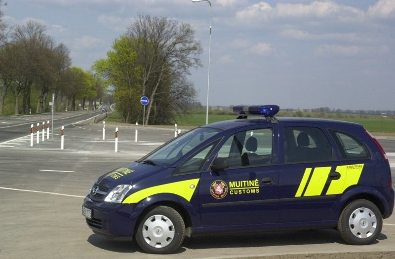 Vehicle of Lithuanian Customs mobile group